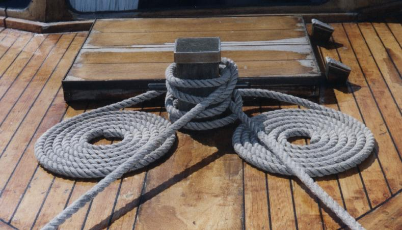 Flemish disc or mat as seen on boats and in marinas